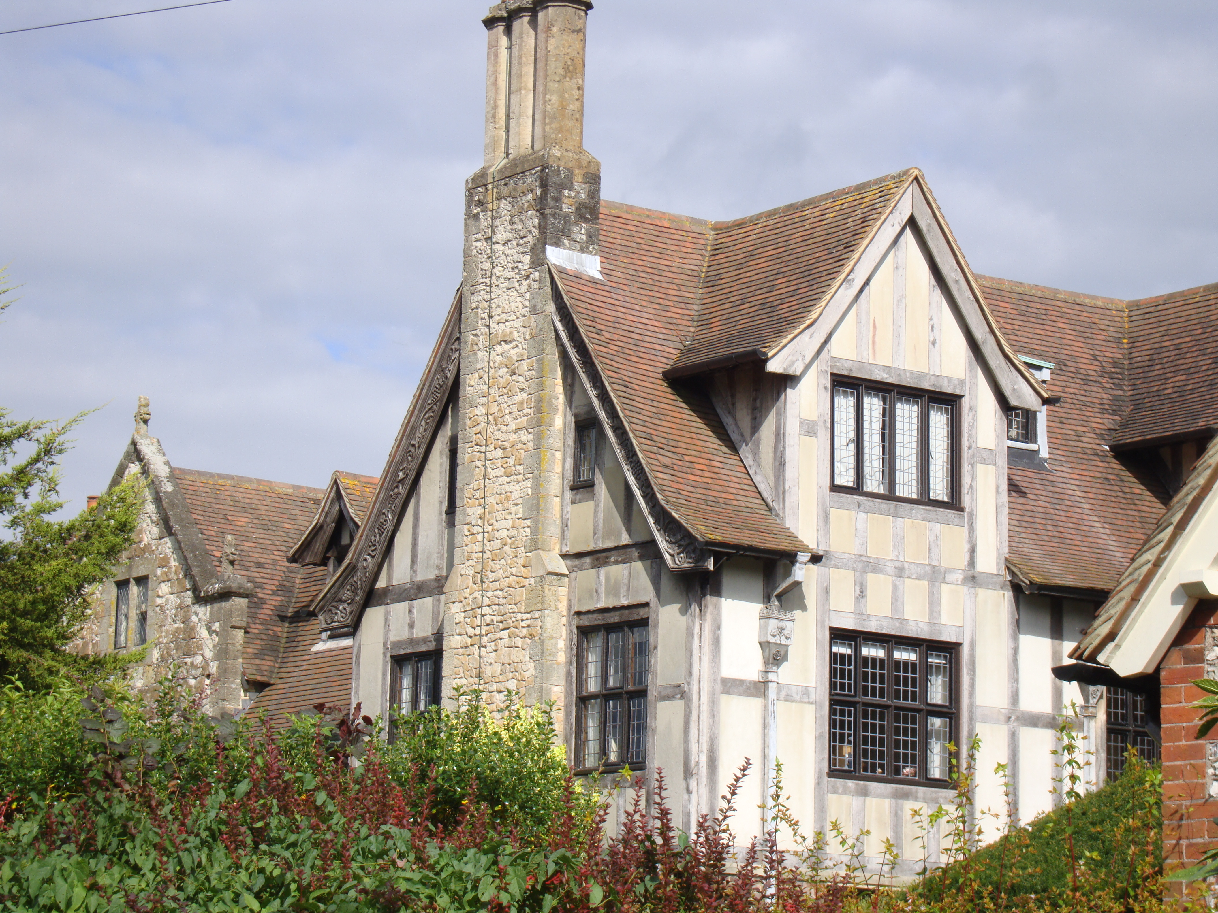 Photograph of St Joseph's Abbey, Storrington, West Sussex, England